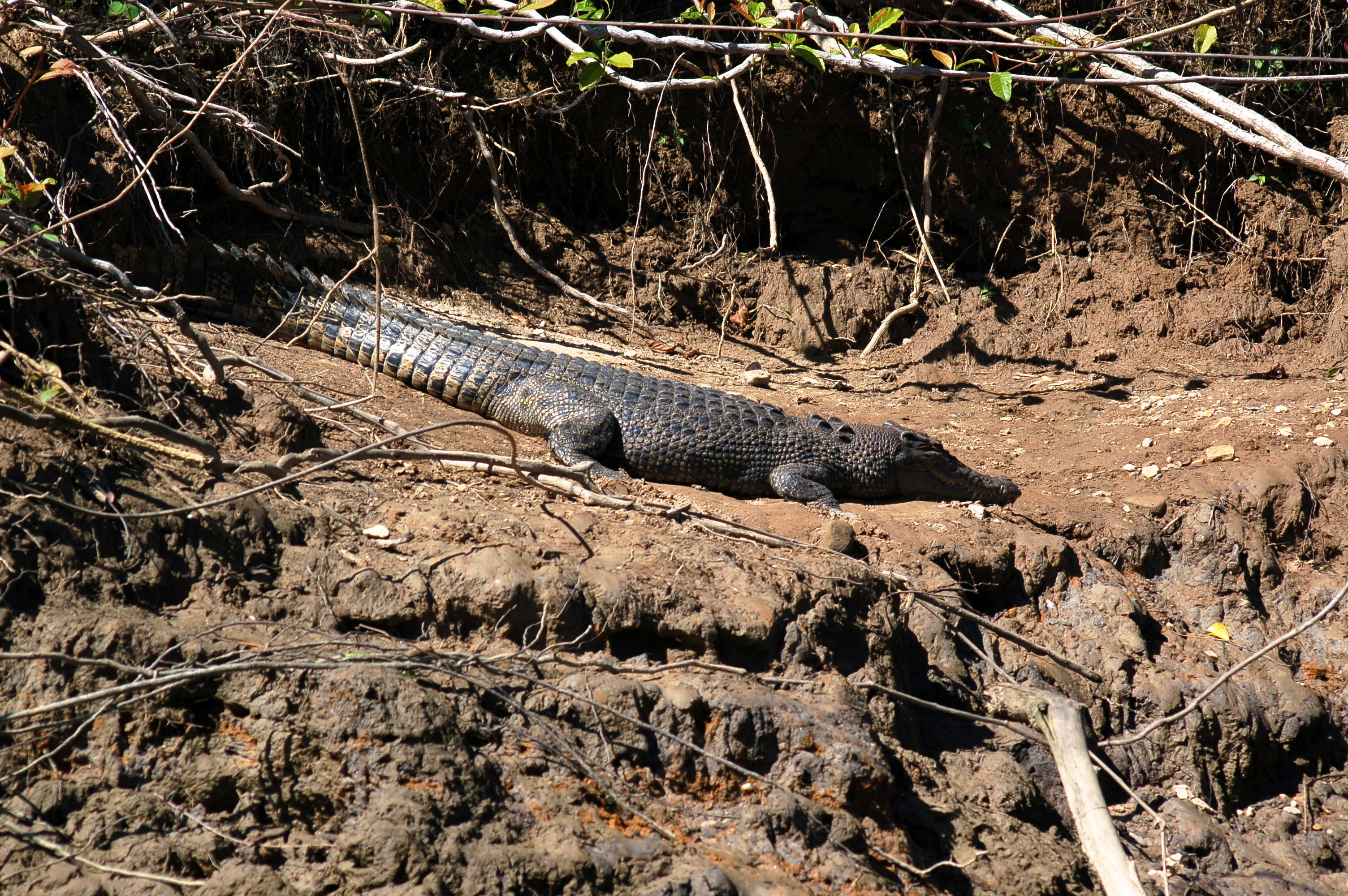 Female Crocodile in the wild in the Daintree River. Approxiamtely 4km west of vehicle ferry.